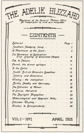 Cover of the Fist Edition of the Adelie Blizzard, a newspaper made by member of the Australasian Antarctic Expedition